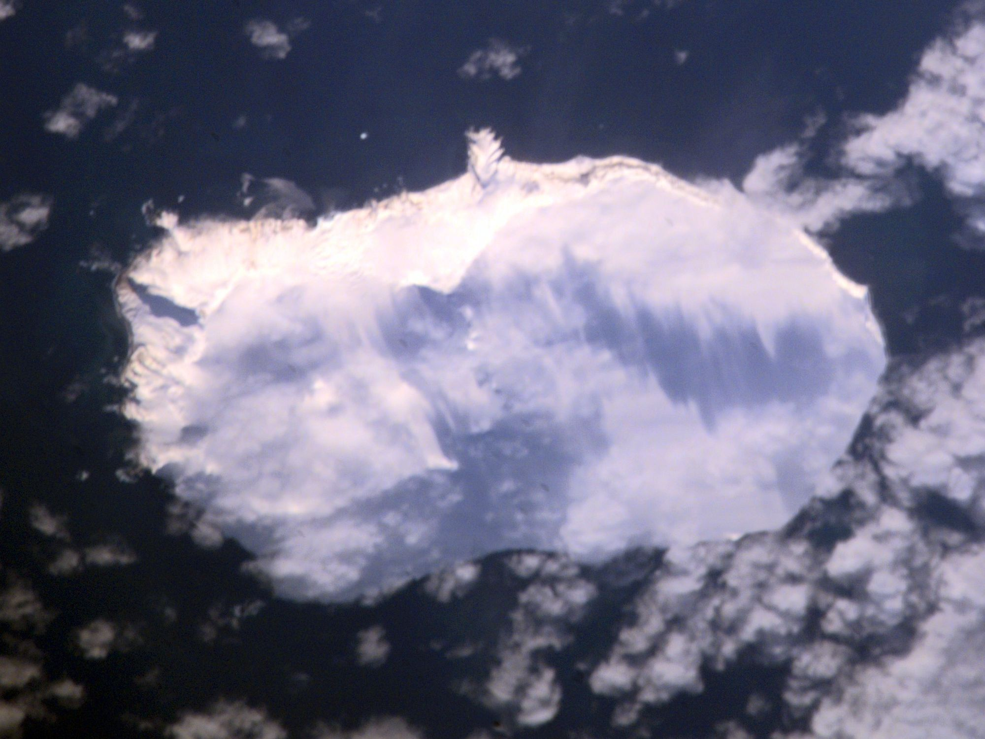 Satellite image of Bouvet Island. Astronaut Photography of Earth - Display Record.